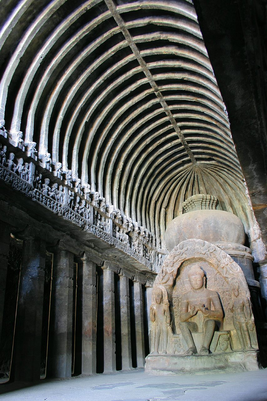 Ellora caves. Cave 10. The most famous in buddhist caves of Ellora.